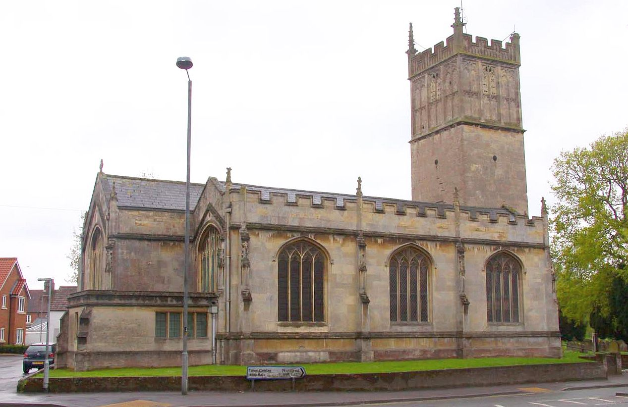 St James' Church in Devizes